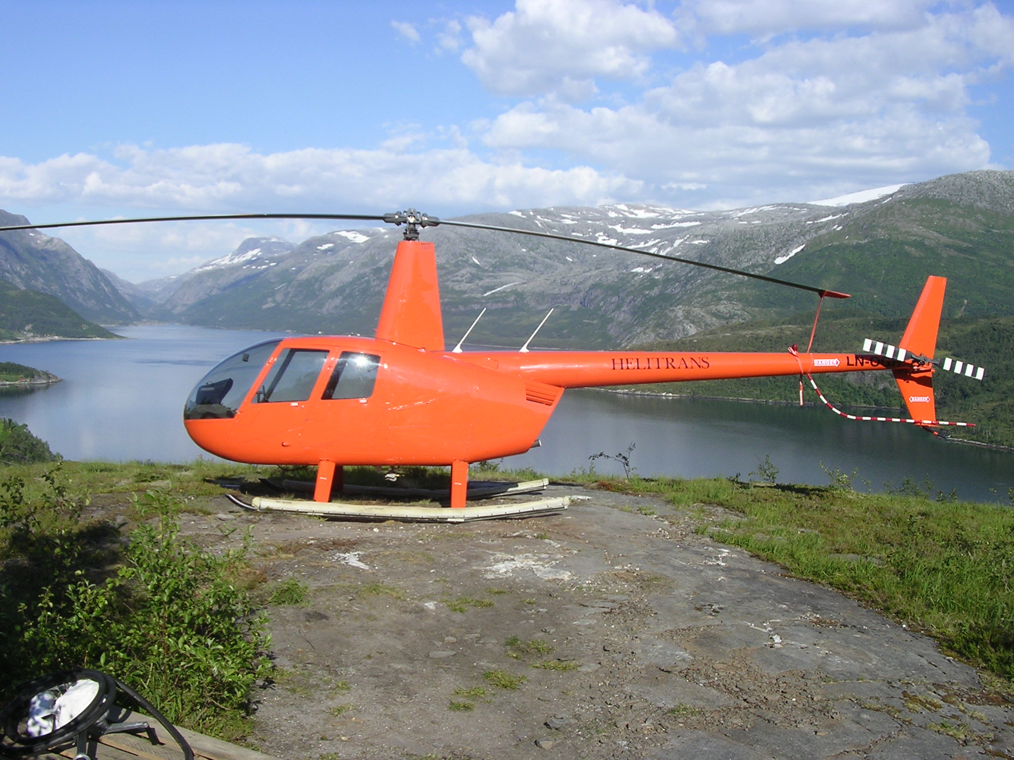 Helicopter (Robinson R44) with a Norwegian fjord in the background, from Lurøy, Norway